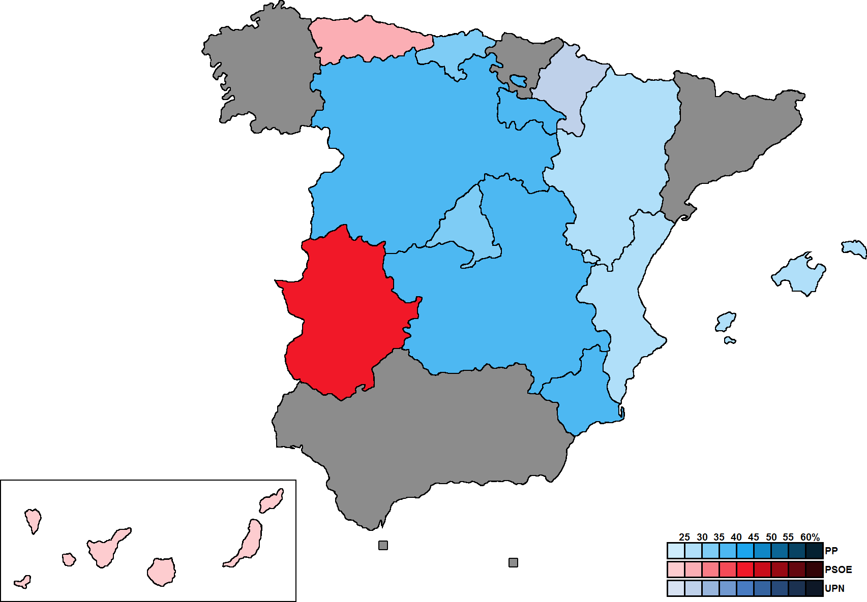 Spain election map results Spanish regional elections, 2015.